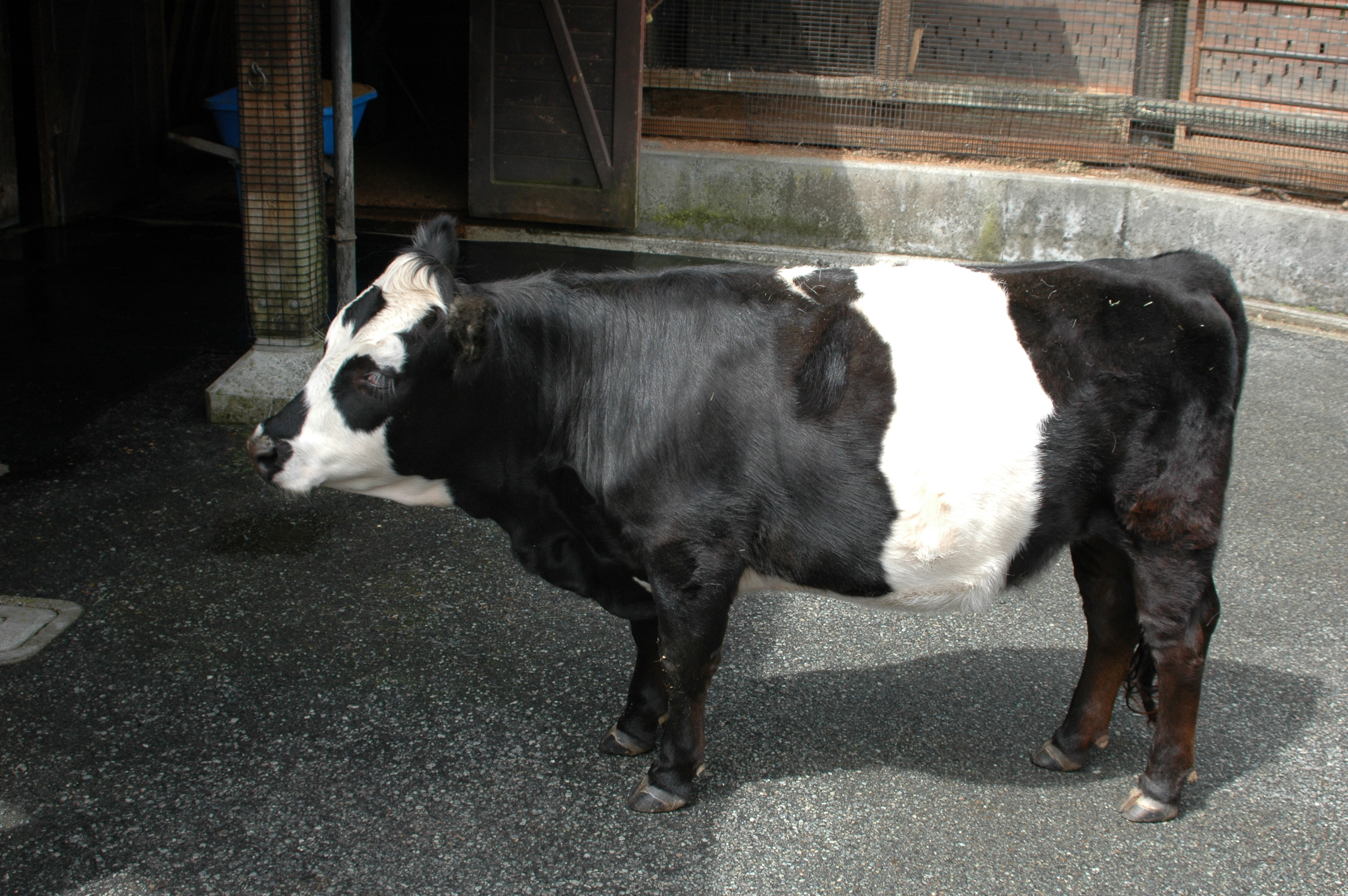 A miniature cow (not a calf, a natural mini breed) called a Panda. At Seattle's Woodland Park zoo.